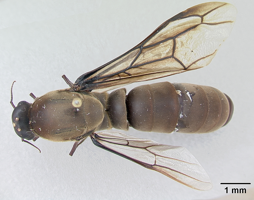 Dorsal view of ant Dorylus wilverthi specimen casent0172860.